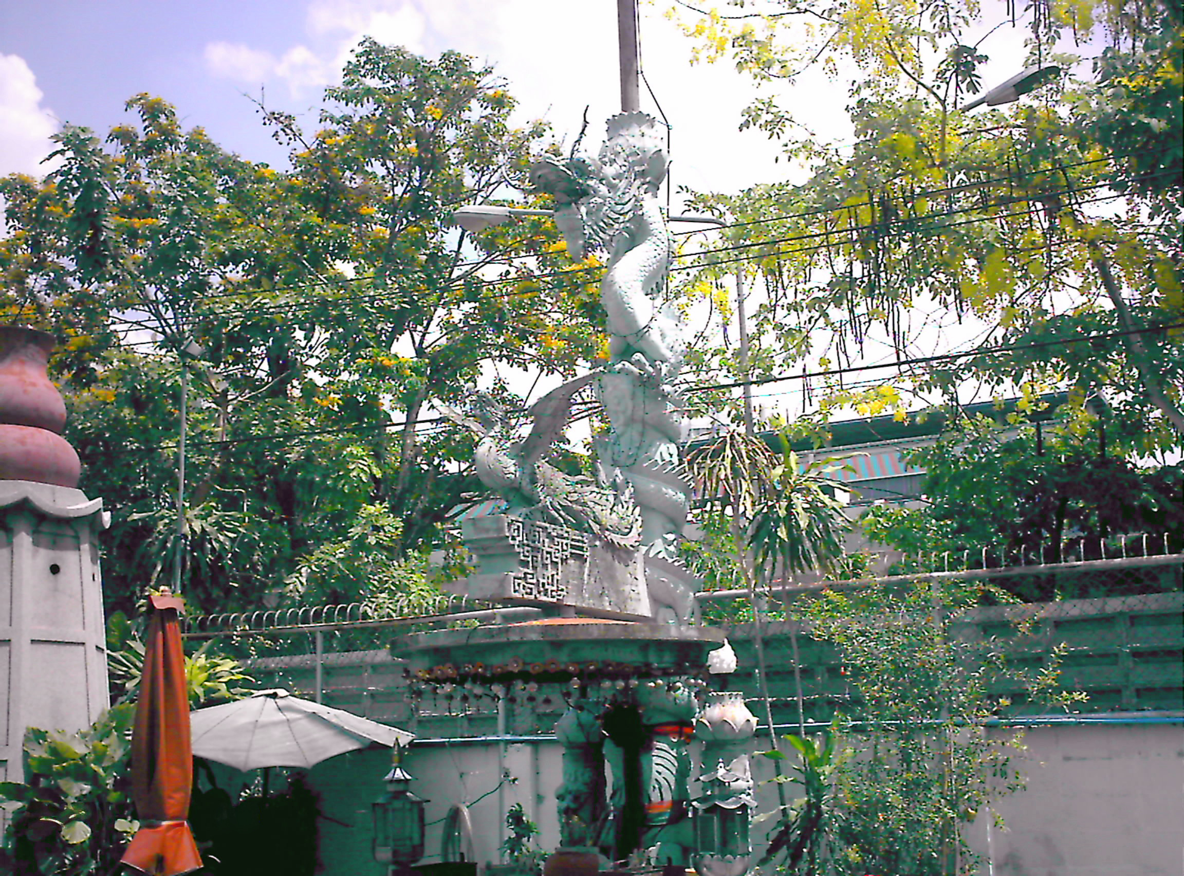 Dragon and Phoenix Pillar in the Garden of Chinese Earth Godess at 1614/1 Charoen Krung Road, Bang Rak, Bangkok, Thailand 中文（香港）: 泰國，曼谷，挽叻縣，石龍軍路 1614/1號，本頭媽廟(谷雞媽)，花園裡的龍鳳柱